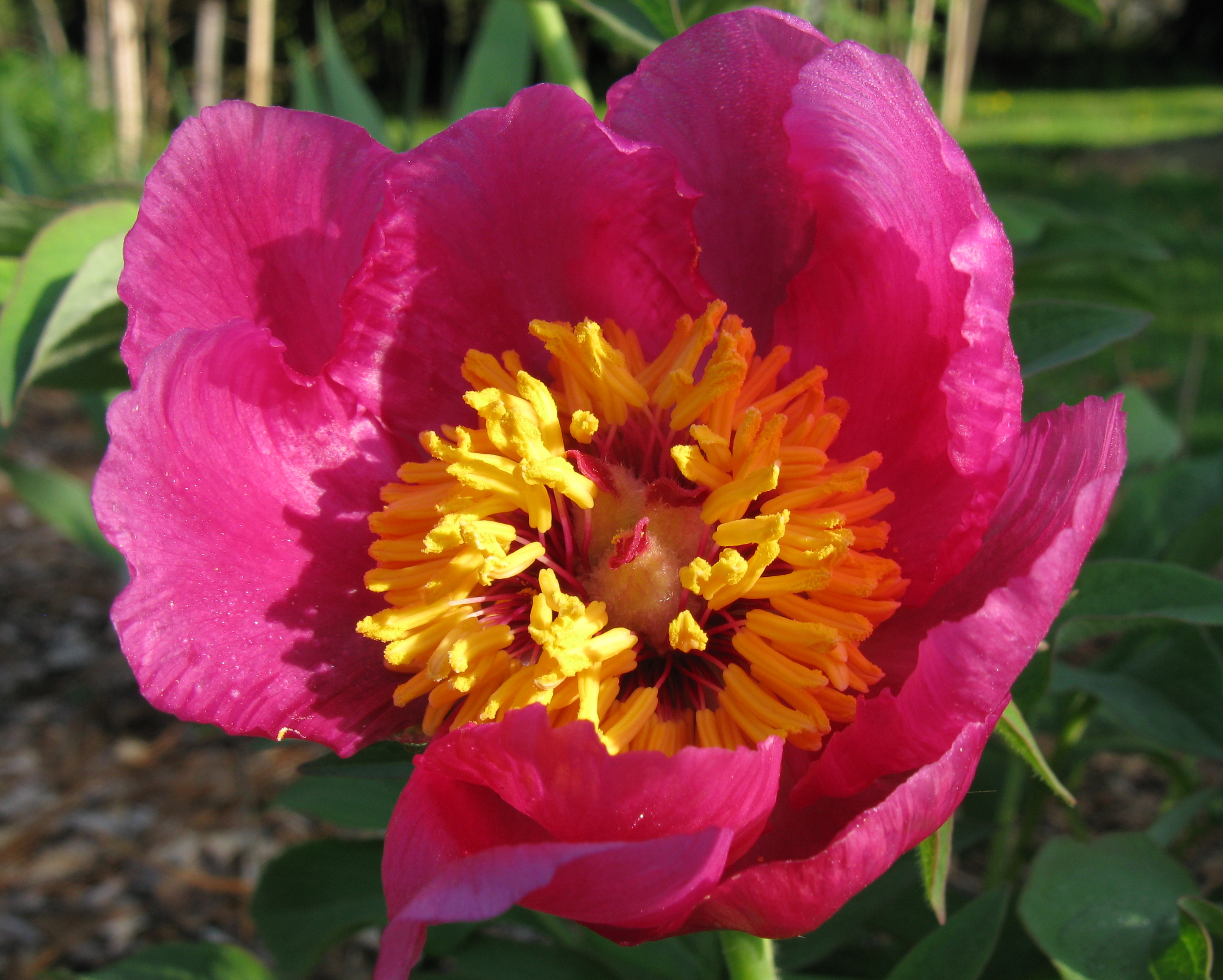 Paeonia mascula (Original description: Paeonia 'anemoniflora rosea' - Our earliest peony, blooms with the late narcissus and early lilacs. It has struggled but survived for a decade. Figured in Curtis Botanical Magazine, 1832 as Paeonis officinalis var. anmoniflora.